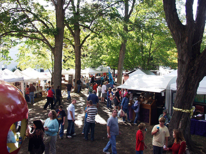 A sunny day at the 2011 Grape Festival in Naples, NY.